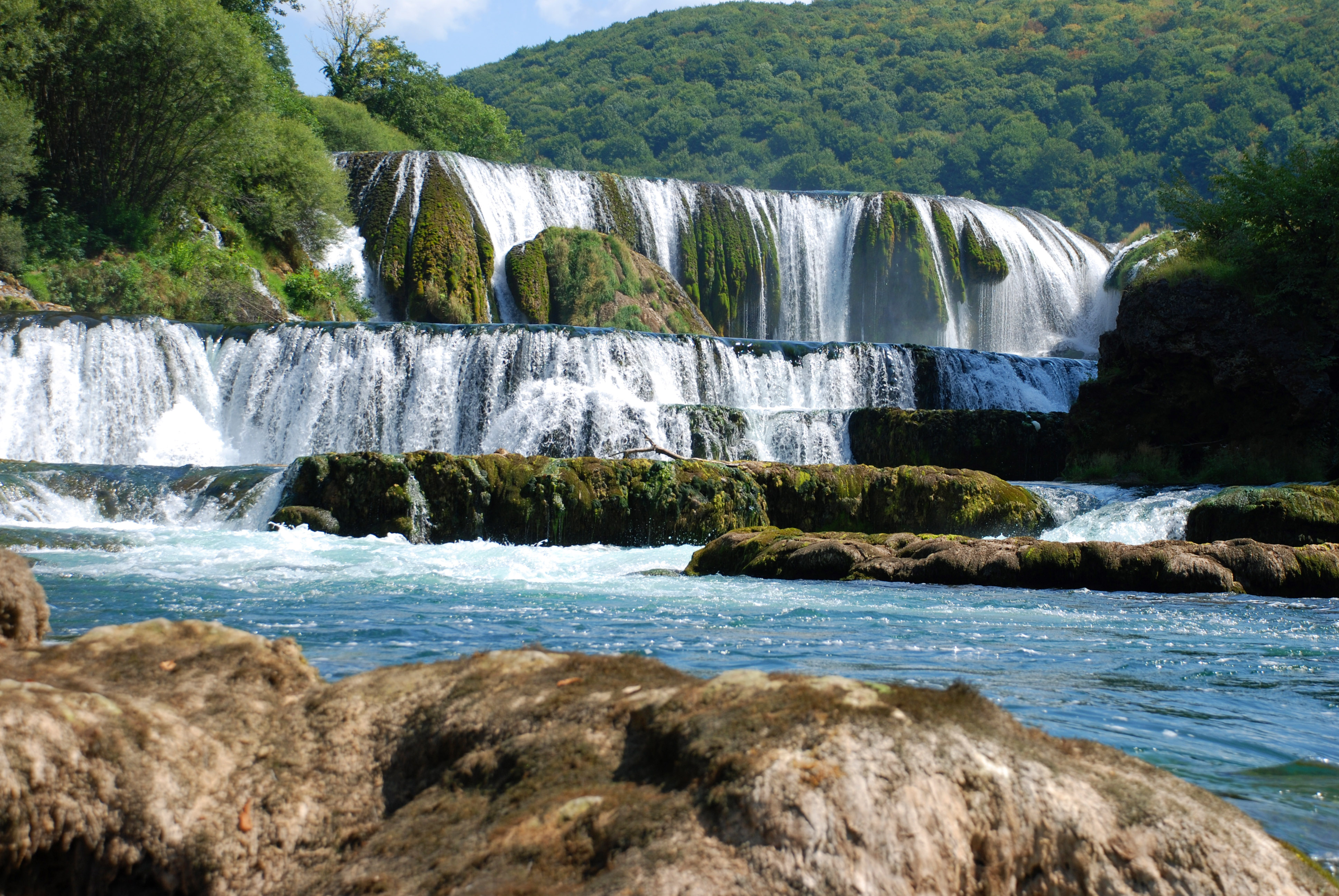 ŠTRBAČKI BUK (VODOPAD)